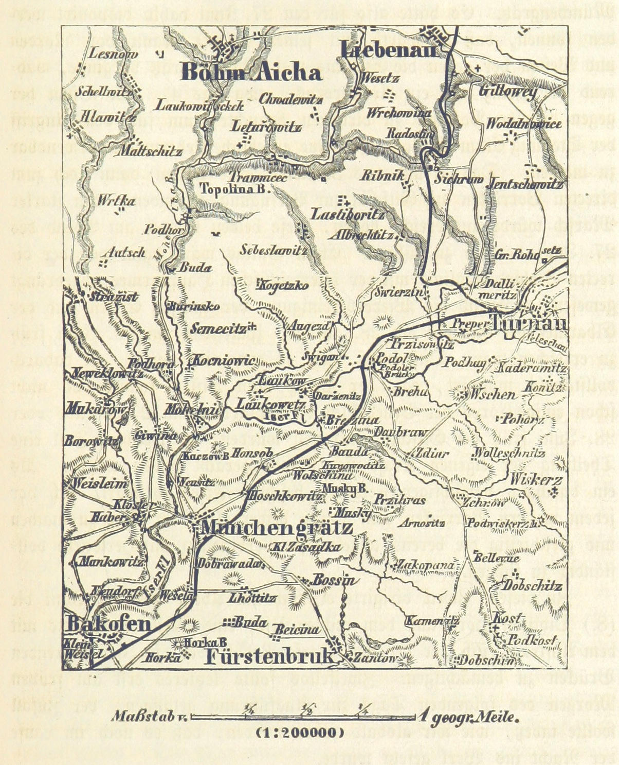 Image extracted from page 241 of Der deutsche Krieg von 1866. Historisch, politisch und kriegswissenschaftlich dargestellt ... Mit Karten und Plänen', by BLANKENBURG, Heinrich - Historical writer. Original held and digitised by the British Library. Copied from Flickr. Note: The colours, contrast and appearance of these illustrations are unlikely to be true to life. They are derived from scanned images that have been enhanced for machine interpretation and have been altered from their originals.